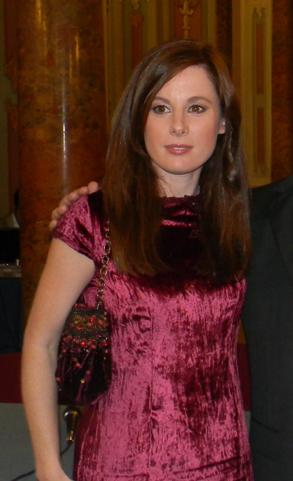 Italian actress Sarah Maestri in october 2013.